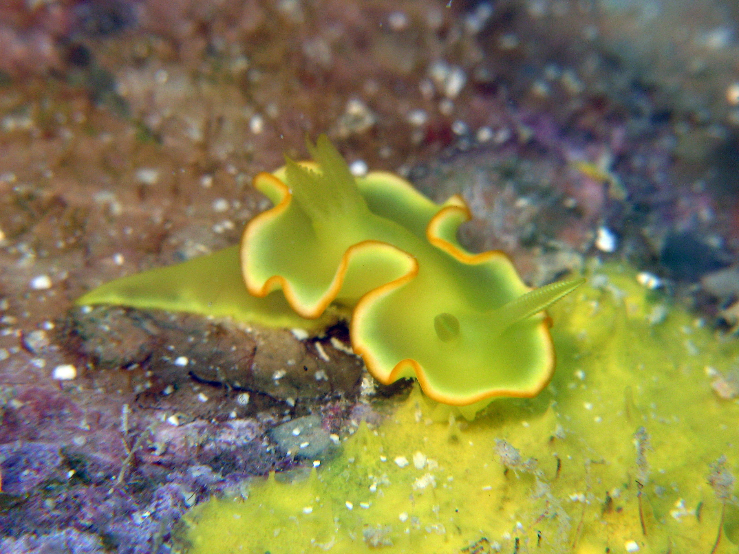 Diversidoris crocea (Rudman, 1986) (synonym: Noumea crocea) at 20 feet depth, off of Guam